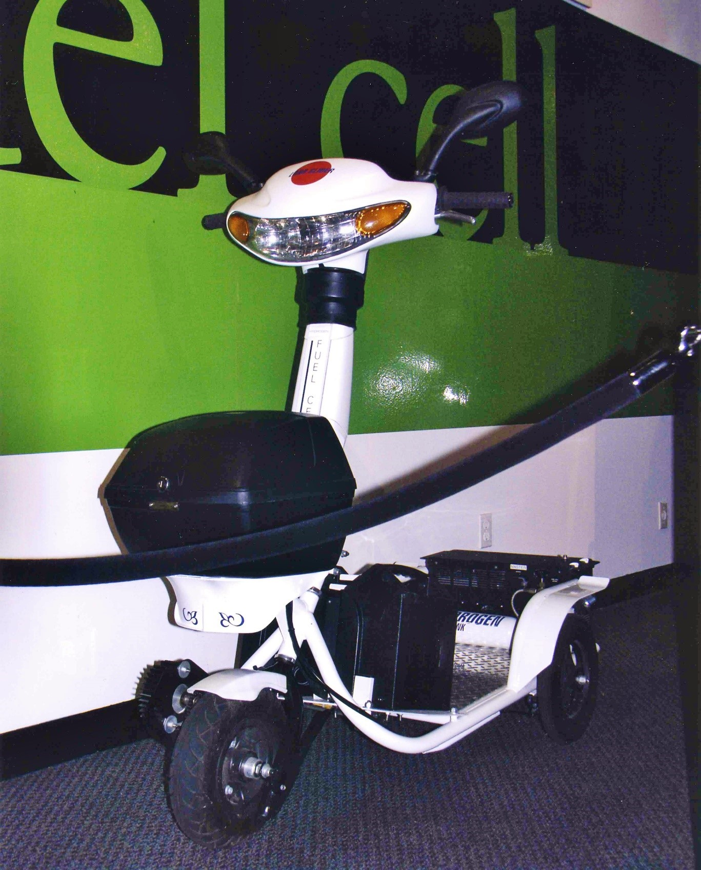 The Land Glider on display at the Petersen Automotive Museum for their 2005 Alternative Power exhibition.